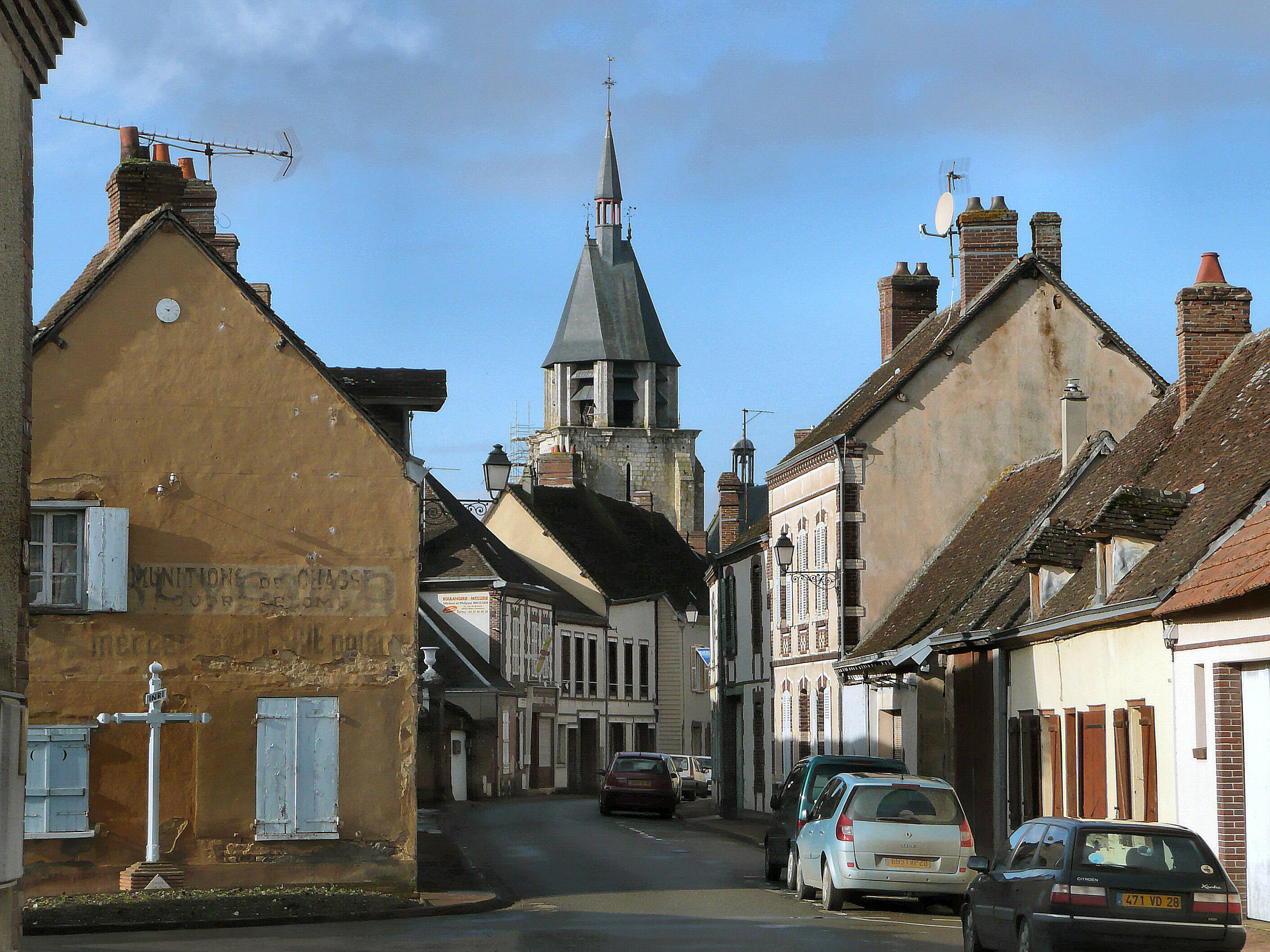 View of Illiers and in the background, the church of Saint-Jacques